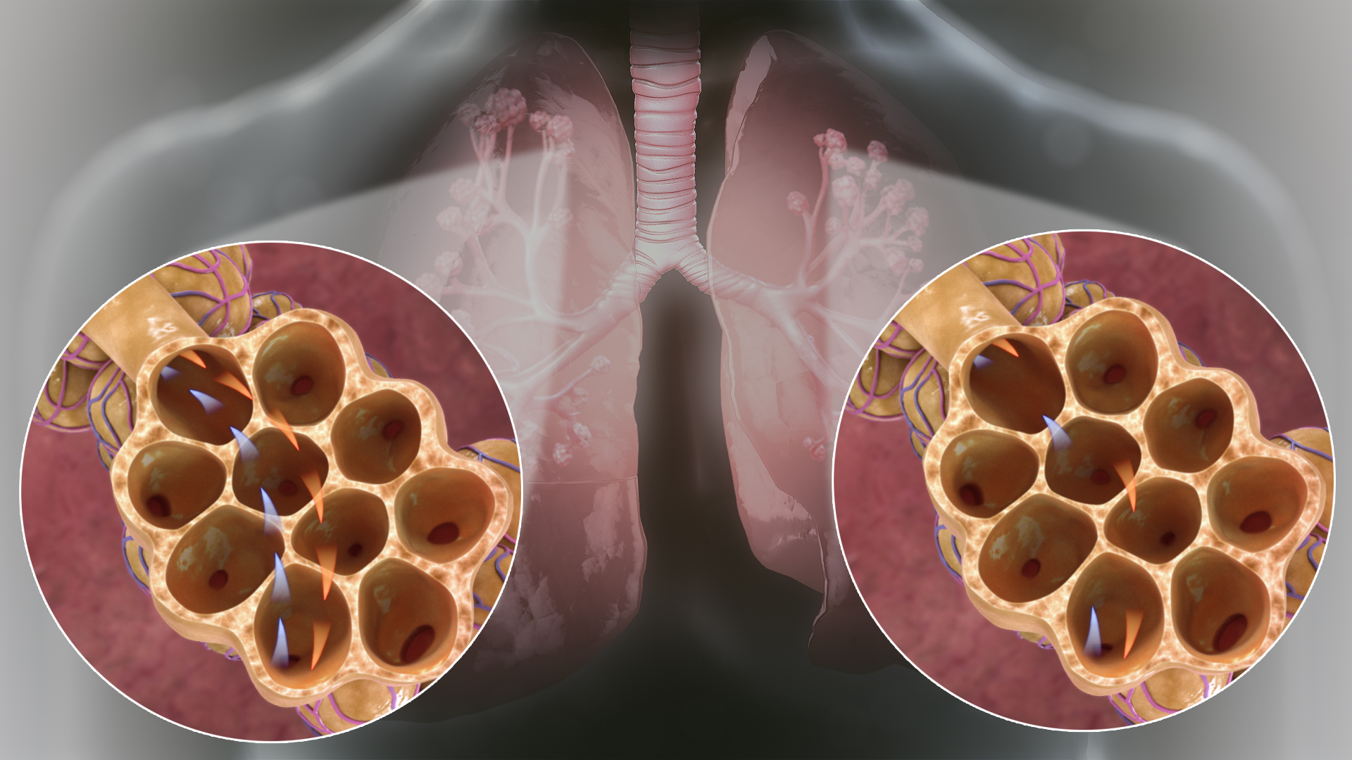 Hyperventilation is increased airflow in lung alveoli due to fast or deep breathing, while Hyperpnea describes breathing that is more rapid and deep.